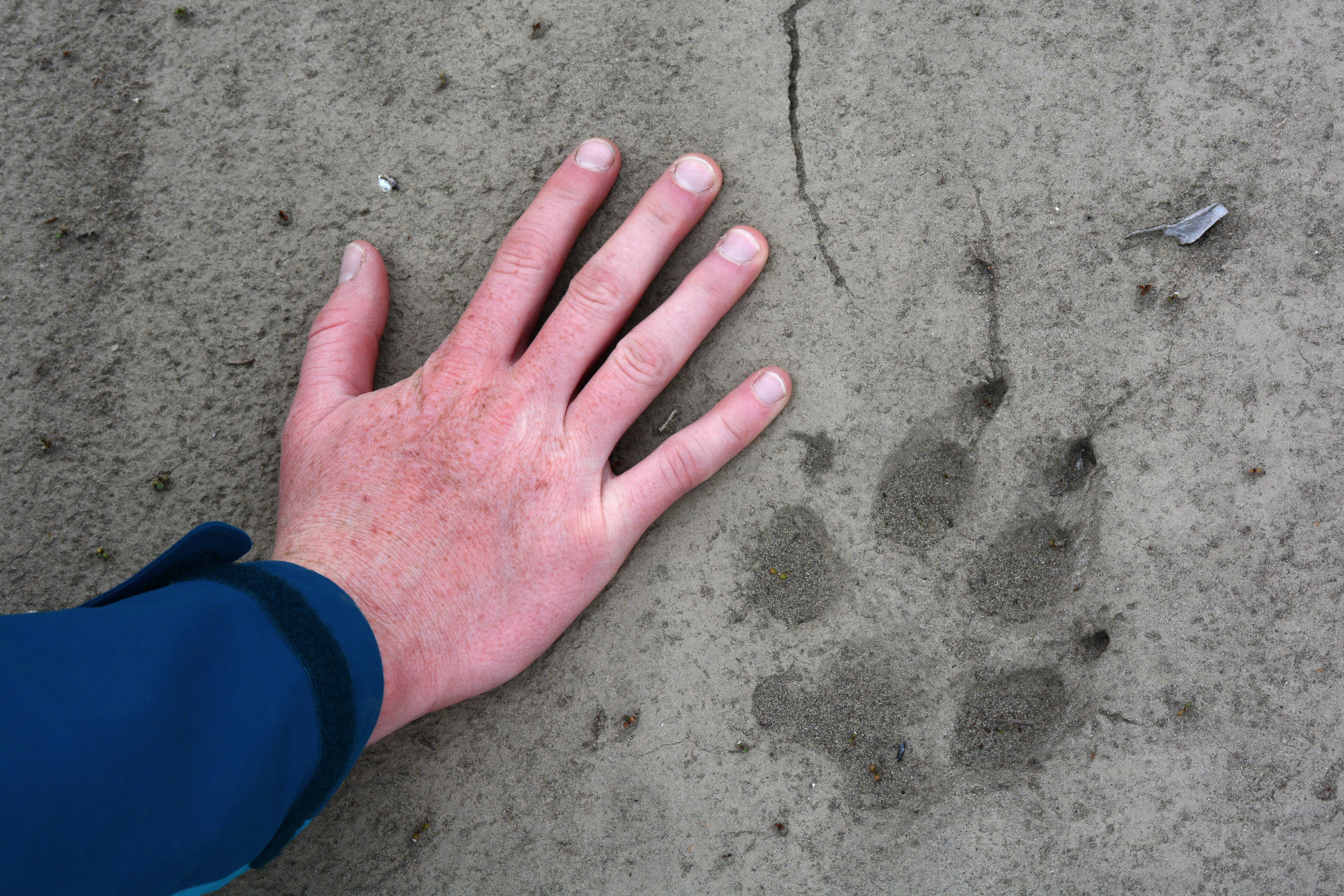 Expedition Arguk member Chelsea Ward-Waller puts her hand alongside a wolf print on the Anaktuvuk River. North Slope, Alaska